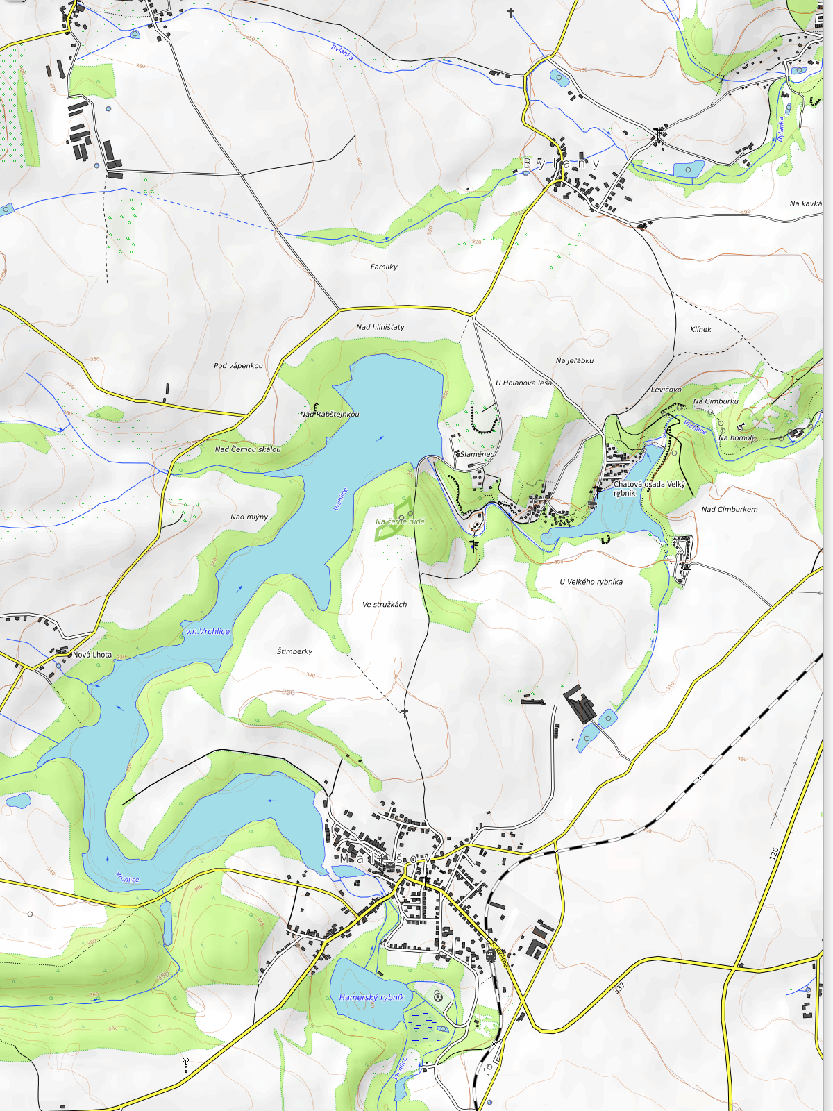 Velký rybník near Kutná Hora 2. Schema of Surroundings. Kutná Hora District, the Czech Republic.